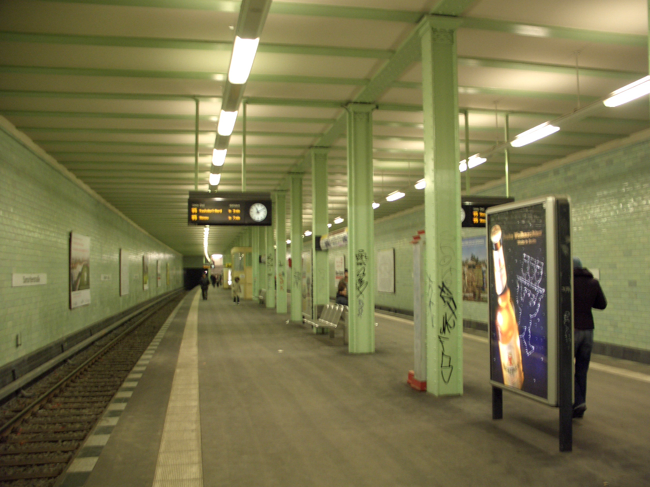 Berlin U-Bahn station Samariterstraße